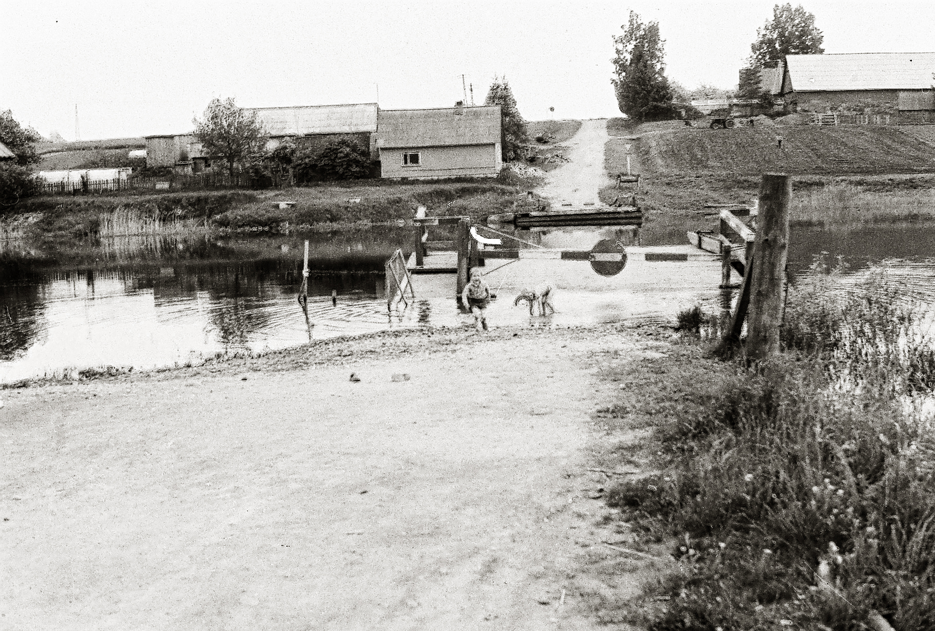 Estonia